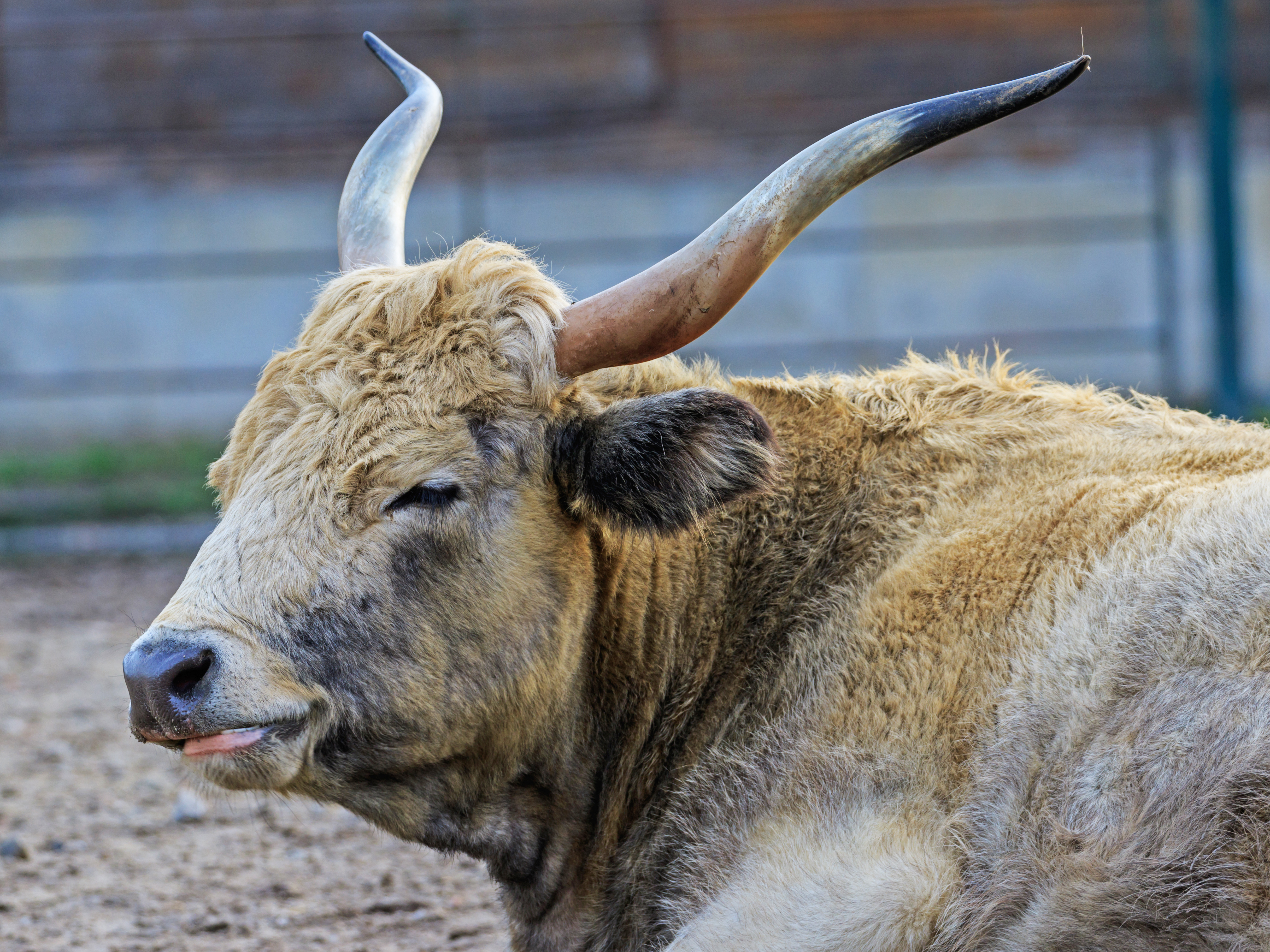 Hungarian Grey cattle in the Berlin Tierpark (Friedrichsfelde zoo)